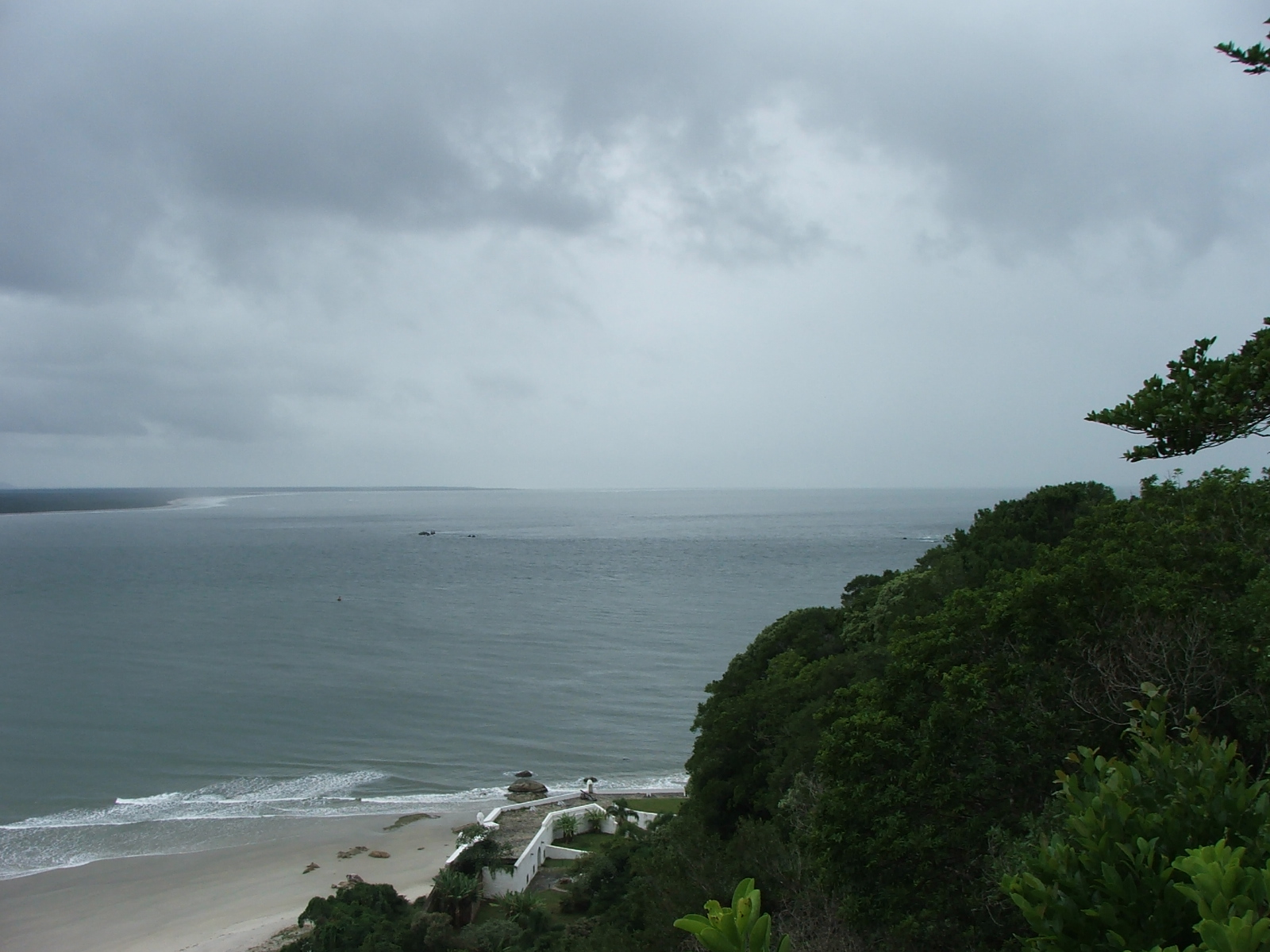 Landscape from Mel Island (below you can see the Fort), Parana, Brazil.